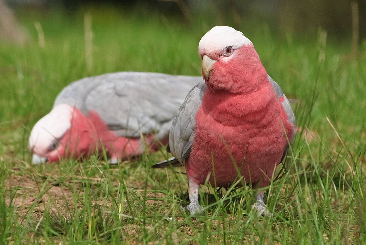 Two Galahs (also known as the Rose-breasted Cockatoo and the Galah Cockatoo) at Wentworth Falls, Blue Mountains, New South Wales, Australia.